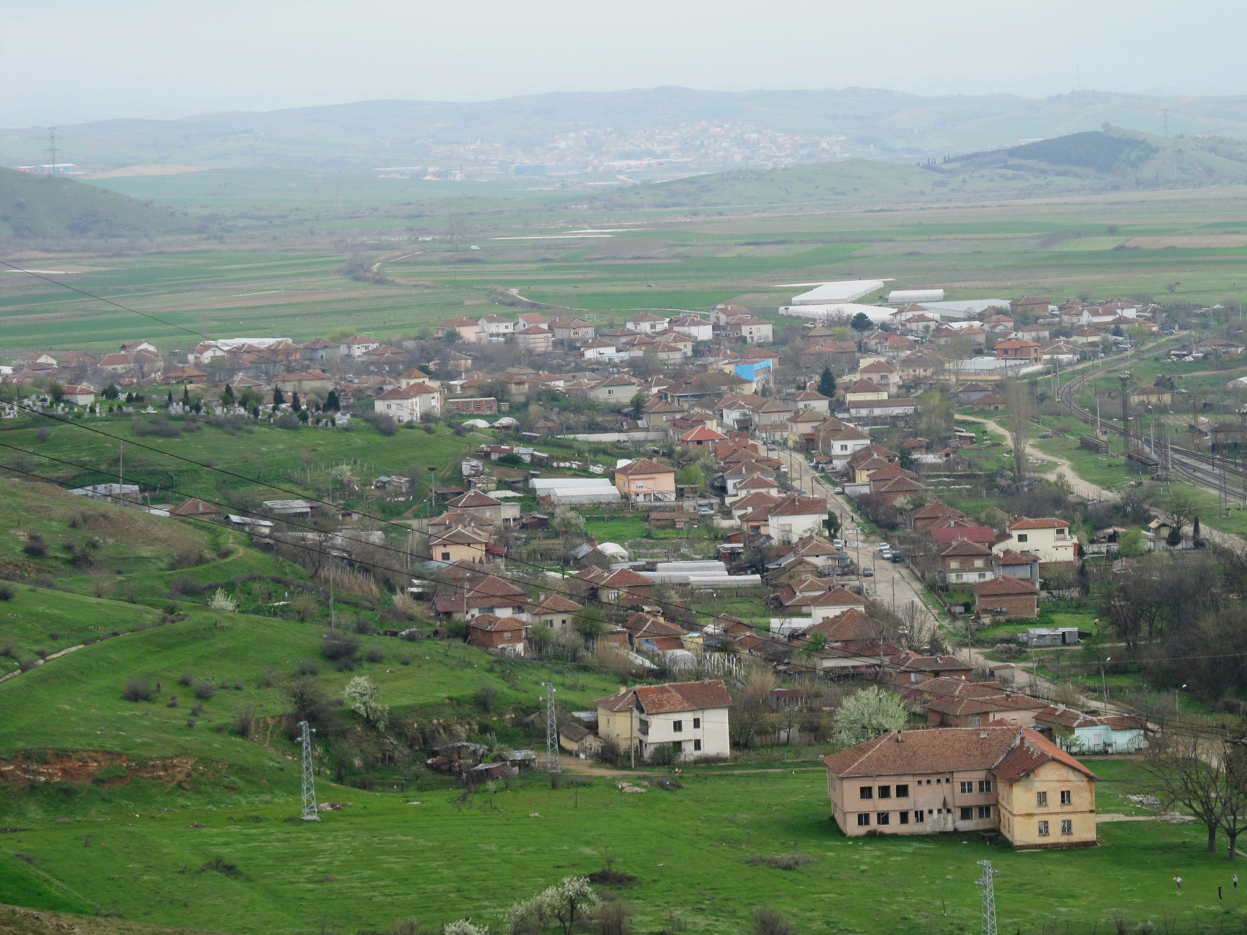 General view of the village of General Todorov, Bulgaria